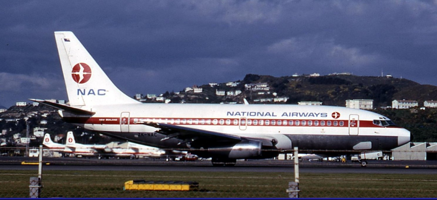 Cropped from the original